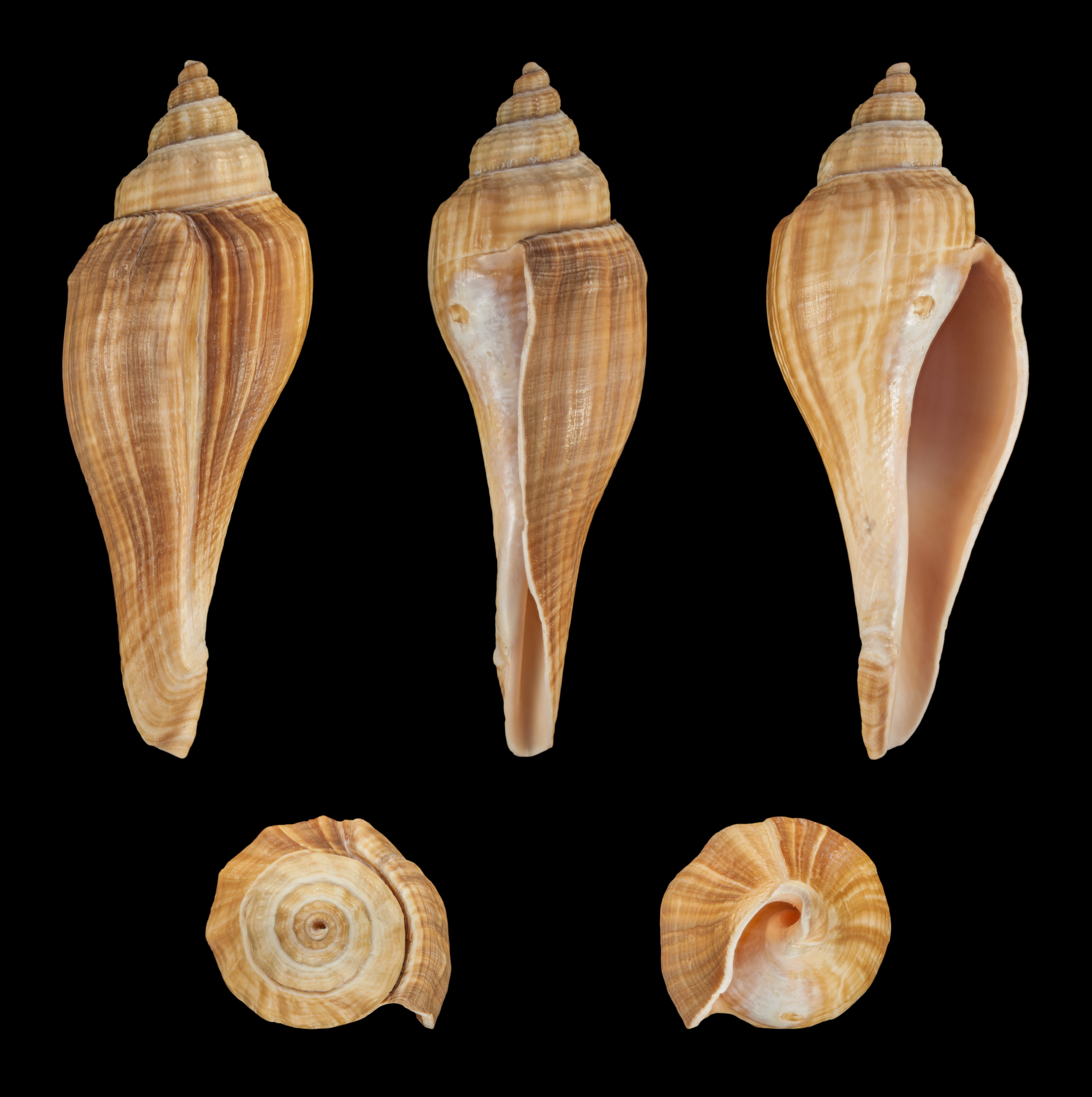 Hemifusus elongatus (Lamarck, 1822), Elongate Melongena; length 8.9 cm; Originating from Vietnam; Shell of own collection, therefore not geocoded. Dorsal, lateral (right side), ventral, back, and front view.